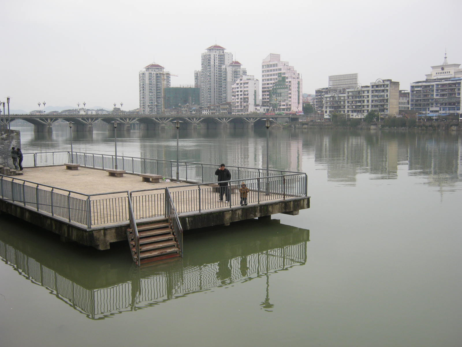 ShaoWu， BaYi Bridge (八一大桥)